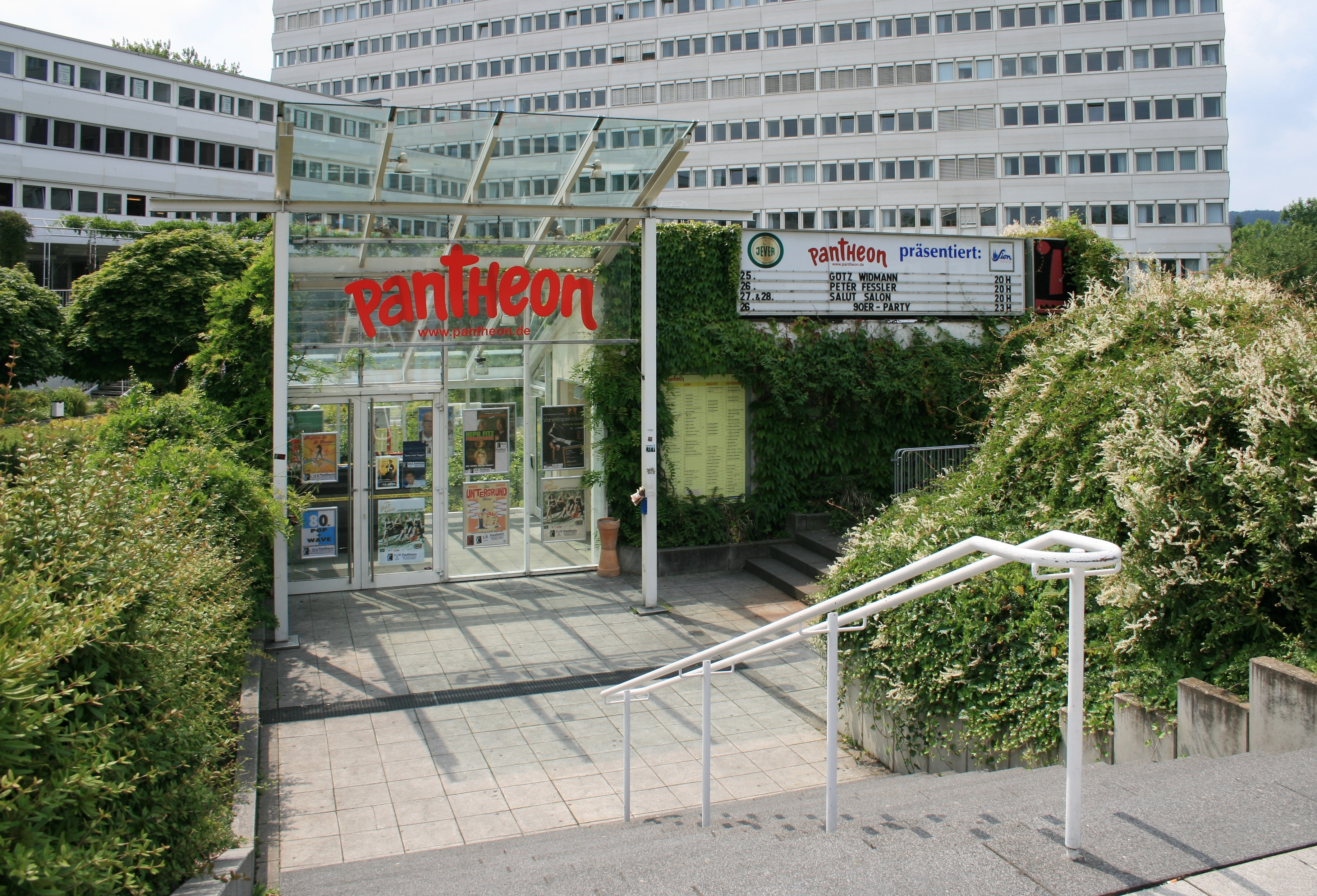 Bonn, Germany: Entrance to downstairs cabaret-theater/dance club "Pantheon" in Bonn (in front of "Bonn-Center"-building, Bundeskanzlerplatz). Meanwhile demolished for a new building.